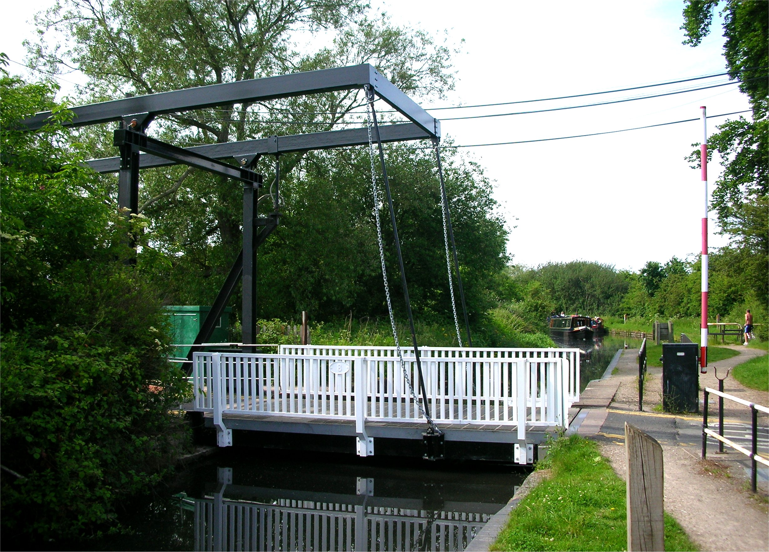 The drawbridge (bridge number 8) on the northern branch of the Stratford-upon-Avon Canal at Majors Green, Worcestershire, England. Photographed by me 3 June 2007. Oosoom